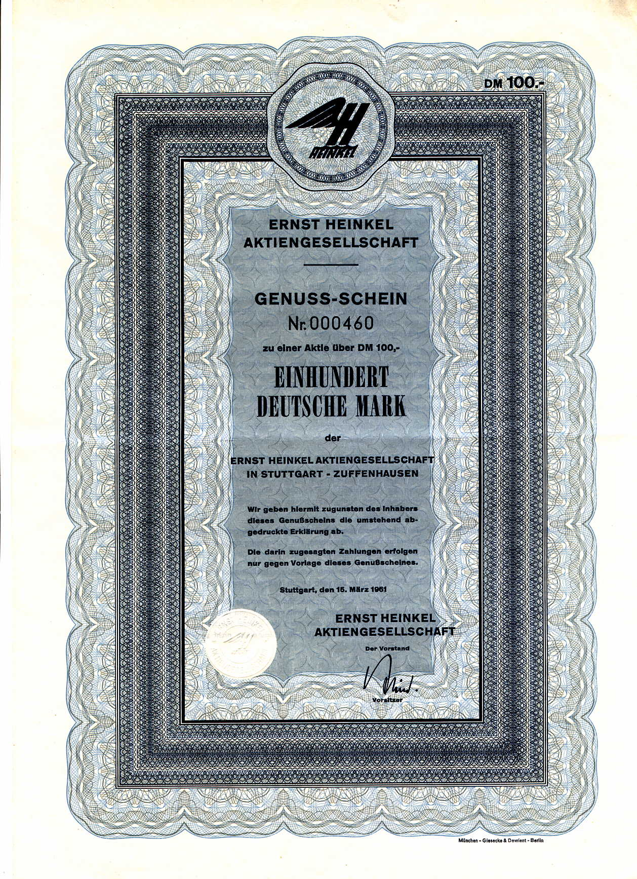 Scan from historic paper taken by user